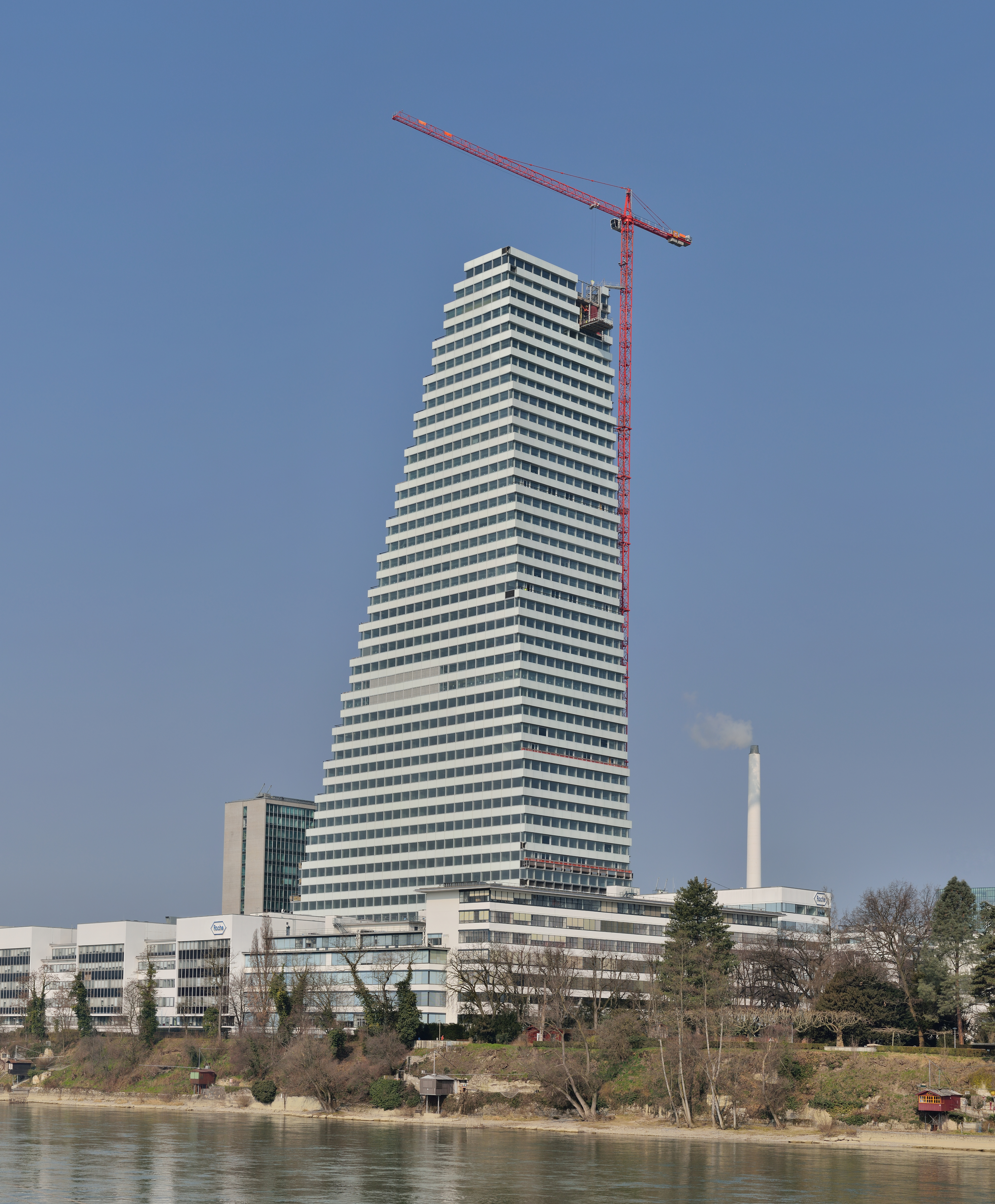 Roche Tower during construction on 14th march 2015